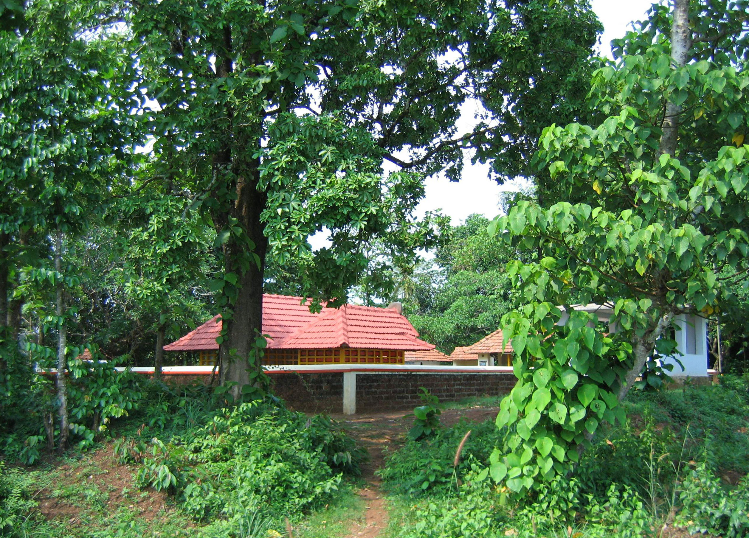 Nampram sree muchilottu Bhagavathy Temple, Parassinikkadavu